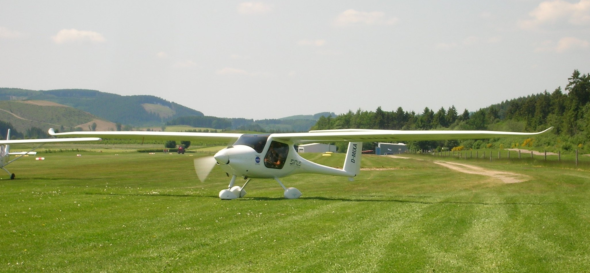 Pipistrel Sinus 912 NW (nose wheel) at german Airfield Schmallenberg-Rennefeld